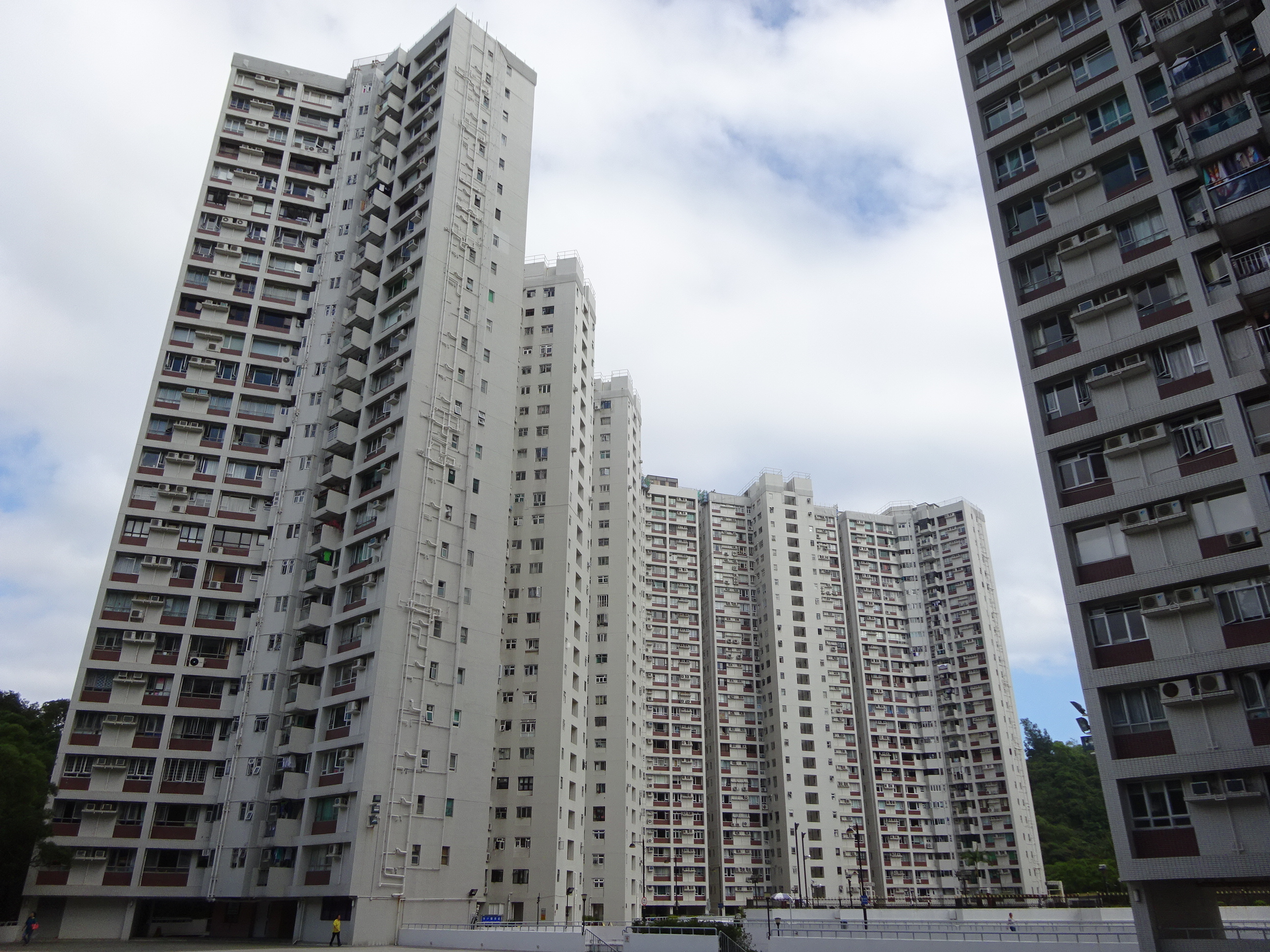 賽西湖大廈, Braemar Hill Mansion, Braemar Hill Road, North Point Mid-Levels, Hong Kong